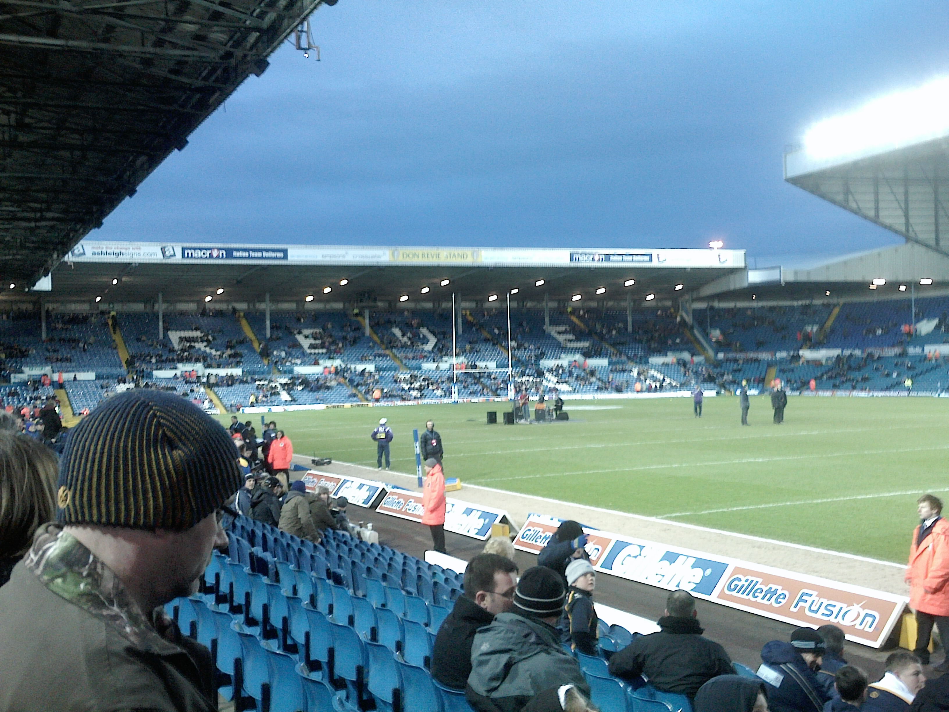 The North Stand (taken from the South West Corner) at Elland Road. Taken prior to the 2010 World Club Challenge on the evening of Sunday the 28th of February 2010.